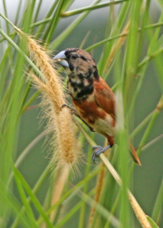 Black-headed Munia (Lonchura malacca) ssp Lonchura malacca malacca Sembawang grassland, Singapore October 23, 2005